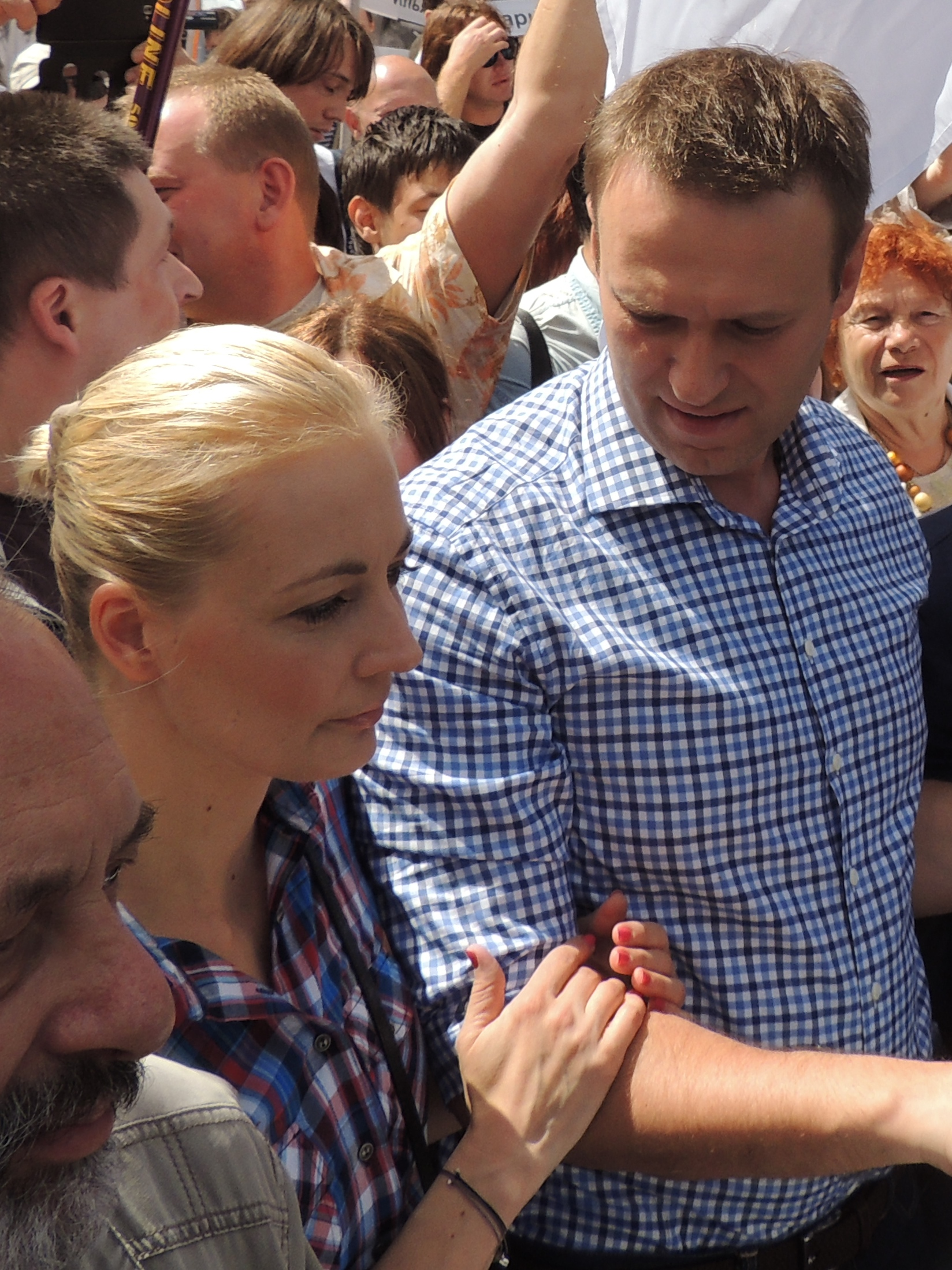 Alexei Navalny with wife Yulia at Moscow rally 2013-06-12